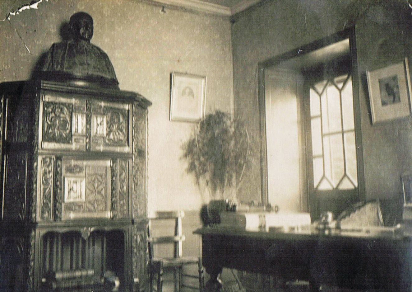 Louis Duschesne's room study in Cité d'Aleth, Saint-Malo, France